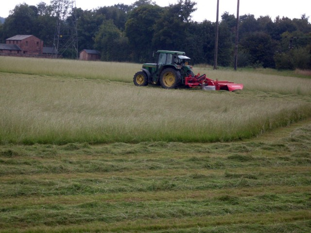 Haymaking. Literally making hay while the sun shines.